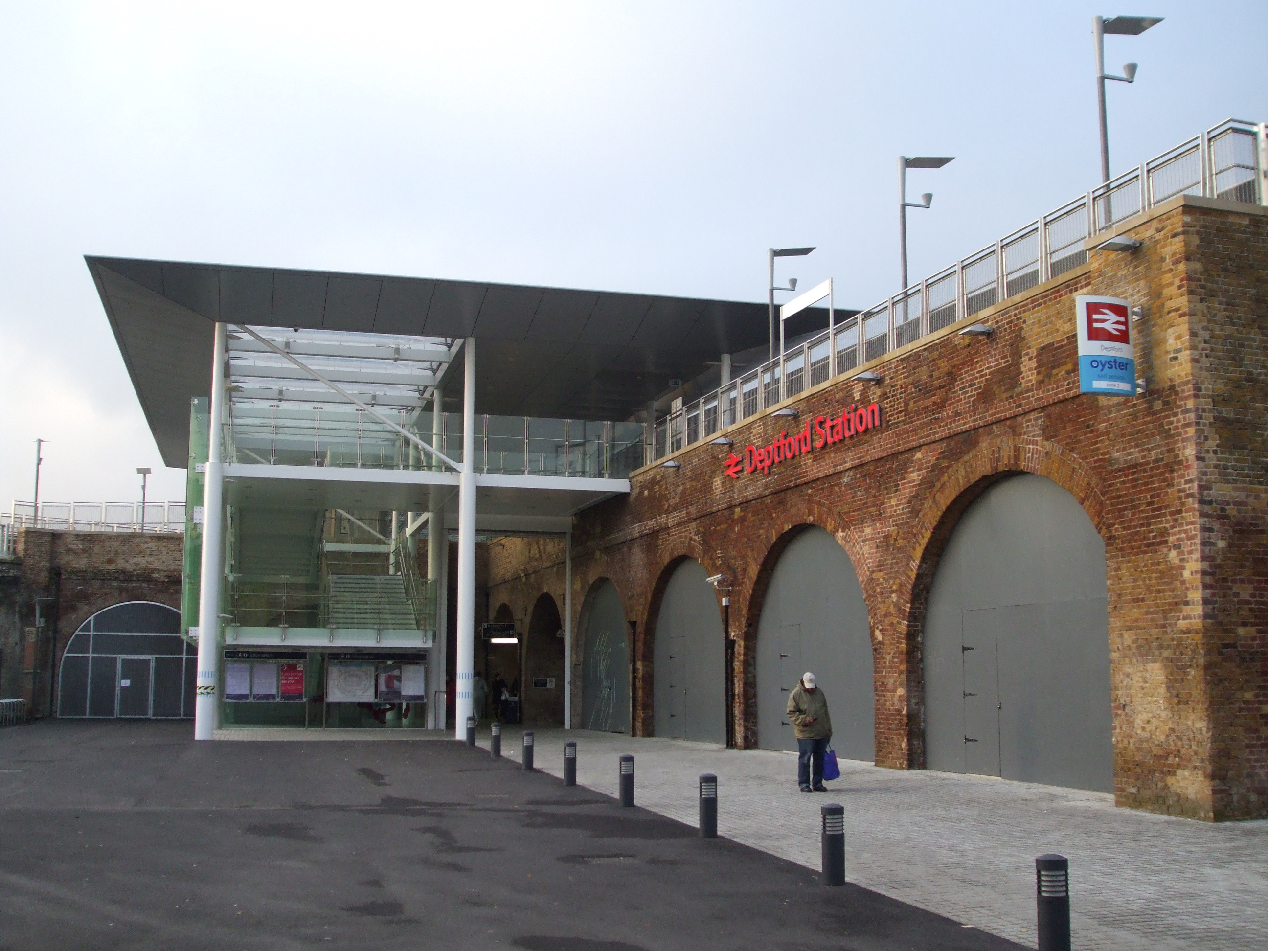 Deptford station new entrance, as seen in 2013